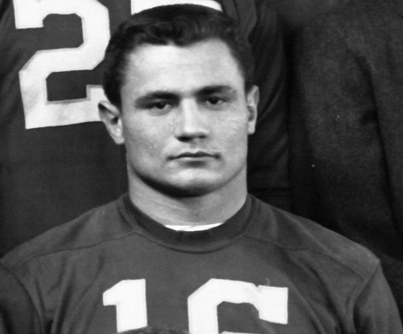 Fred Julian cropped from team portrait of 1958 Michigan Wolverines football team